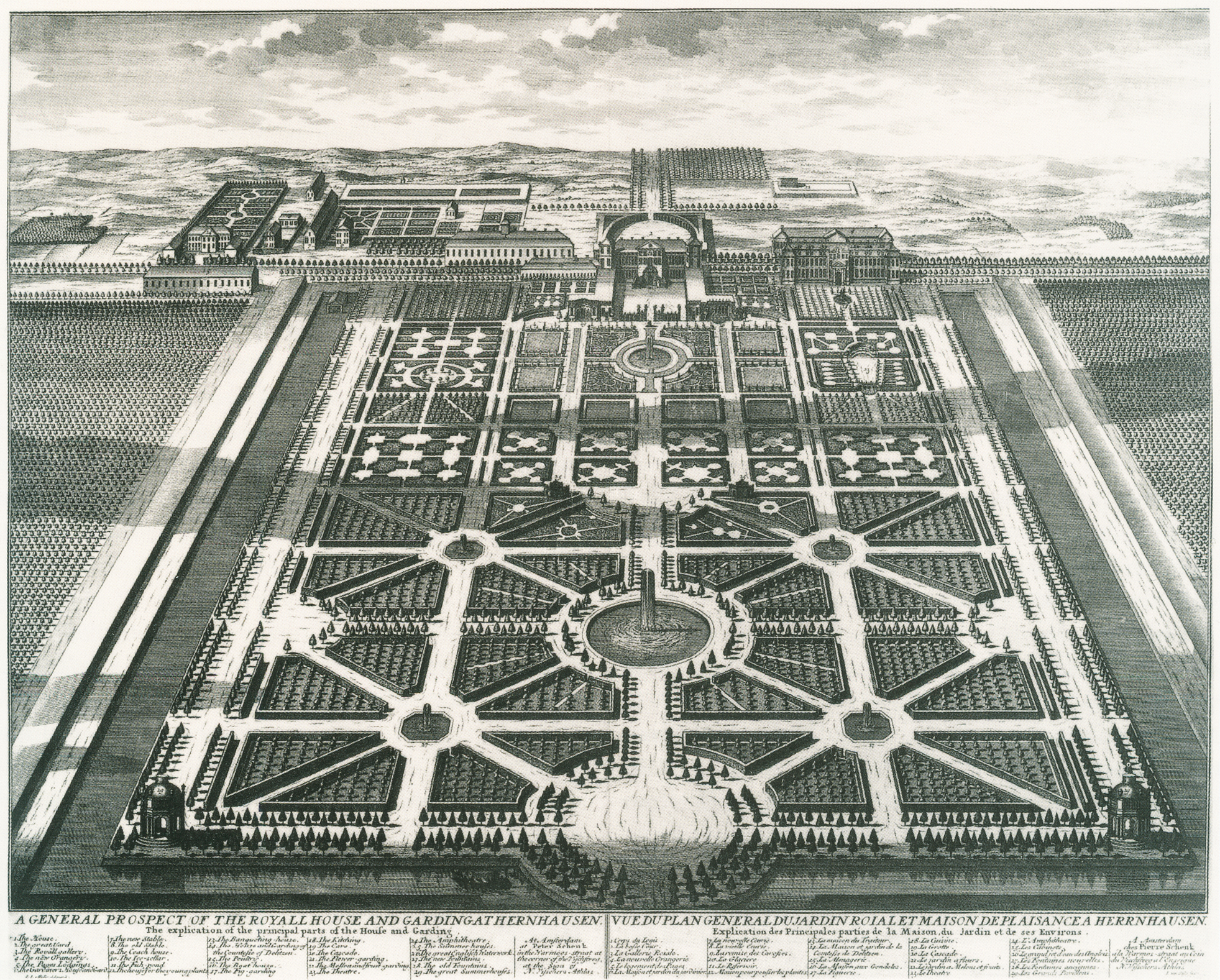 Bird's–eye view map of the Royal Garden Herrenhausen (today: Großer Garten ‛Great Garden’) near Hanover, seen from the south to the north, drawn by J. J. Müller, engraved by Joost van Sasse, copperplate, about 1725. Above in the middle Herrenhausen Palace with corps de logis and cour d'honneur, on the right the long gallery building and behind it the orangery, on the left different annexes. In front of the palace the parterre with the sylvan theater on the right. In the foreground the south part of the garden with the Great Fountain.